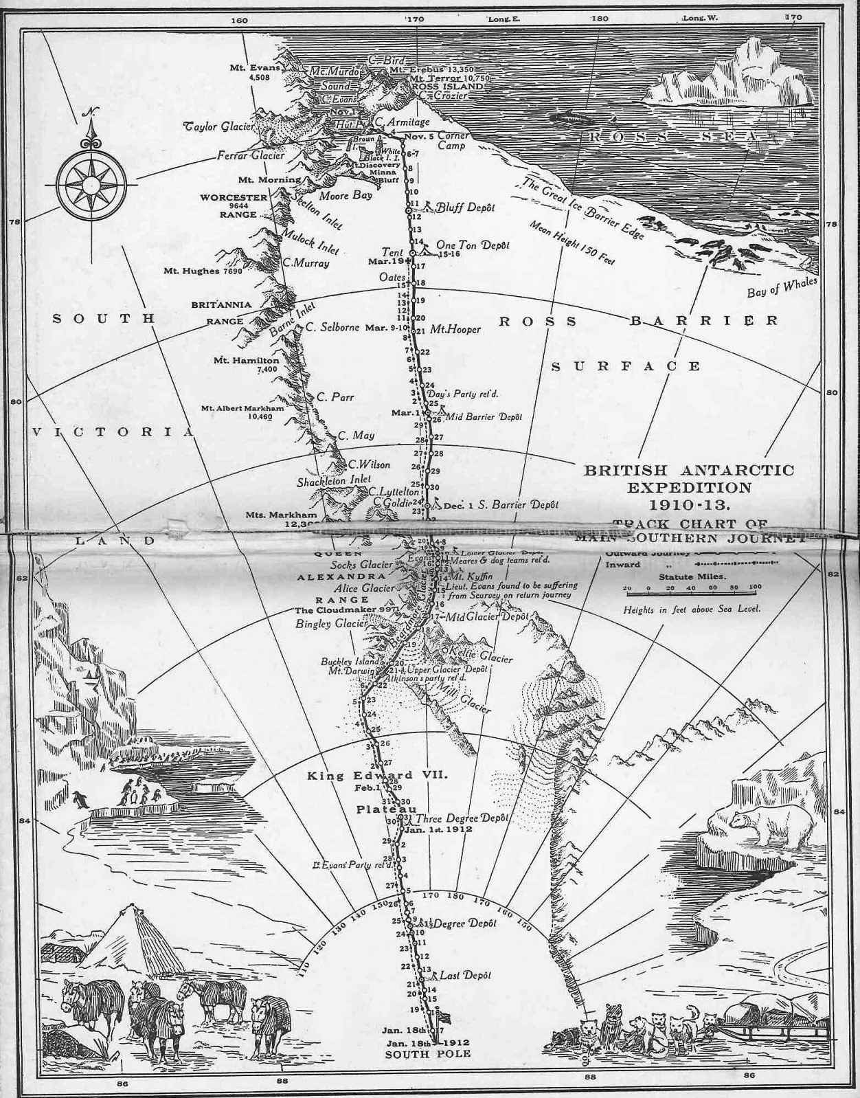 Map of Robert Falcon Scott's southern journey on the Terra Nova Expedition (1910-1913)